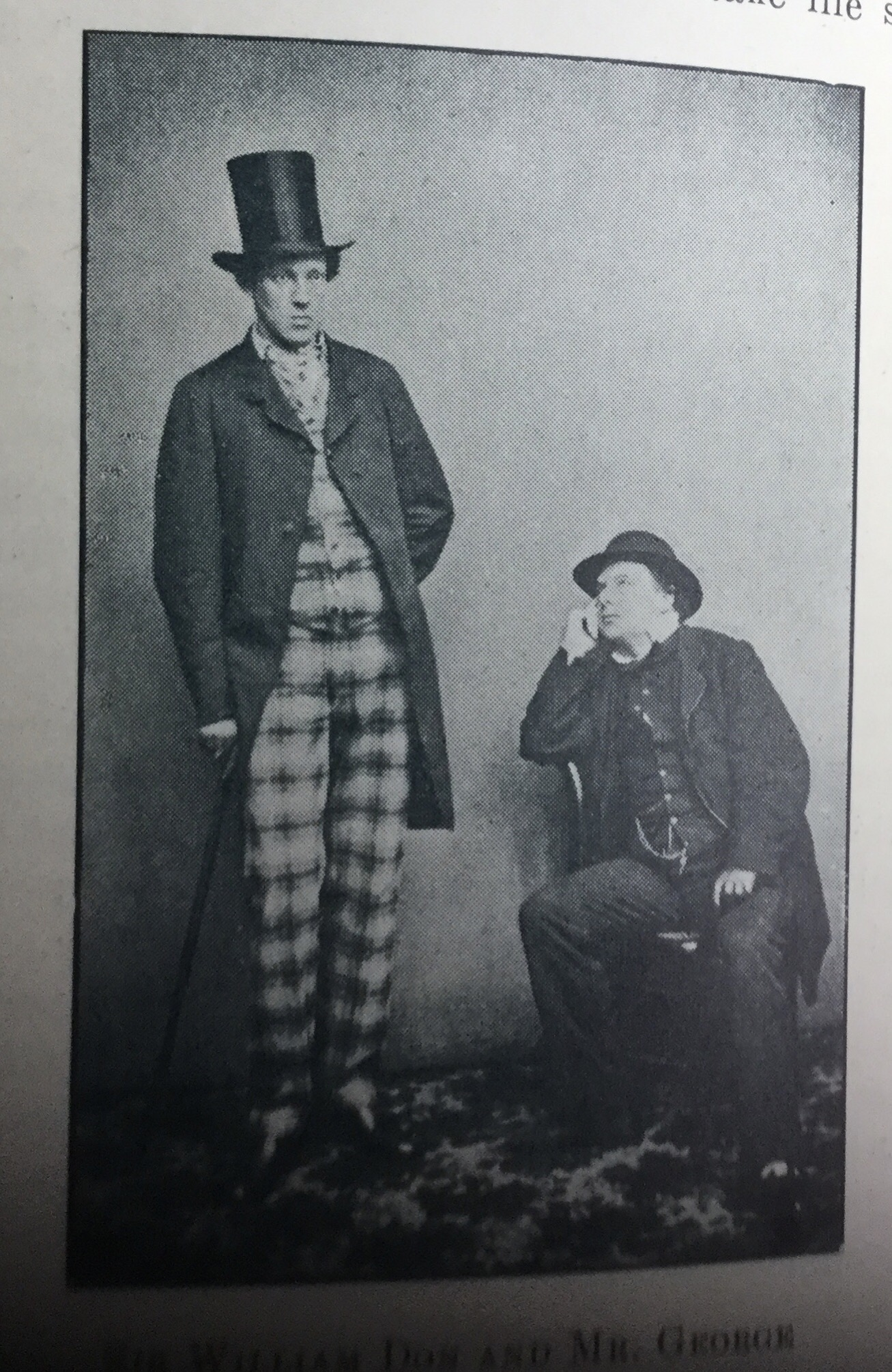 Two British actors